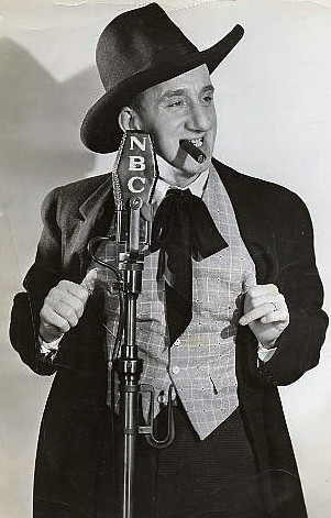 Publicity photo of Jimmy Durante for The Jumbo Fire Chief Show, 1935.